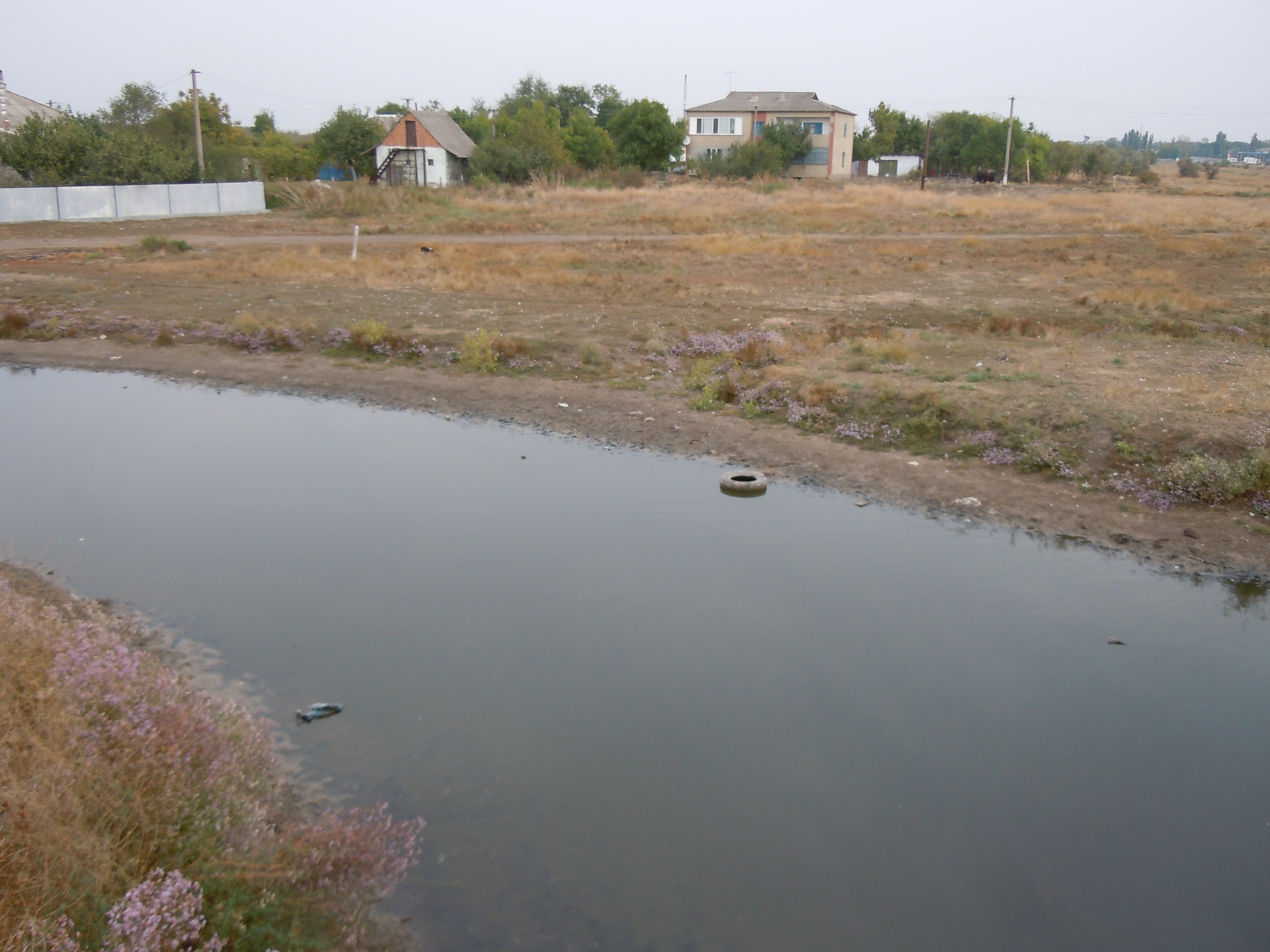 The Sarata River in Sarata, Odessa Oblast, SW Ukraine